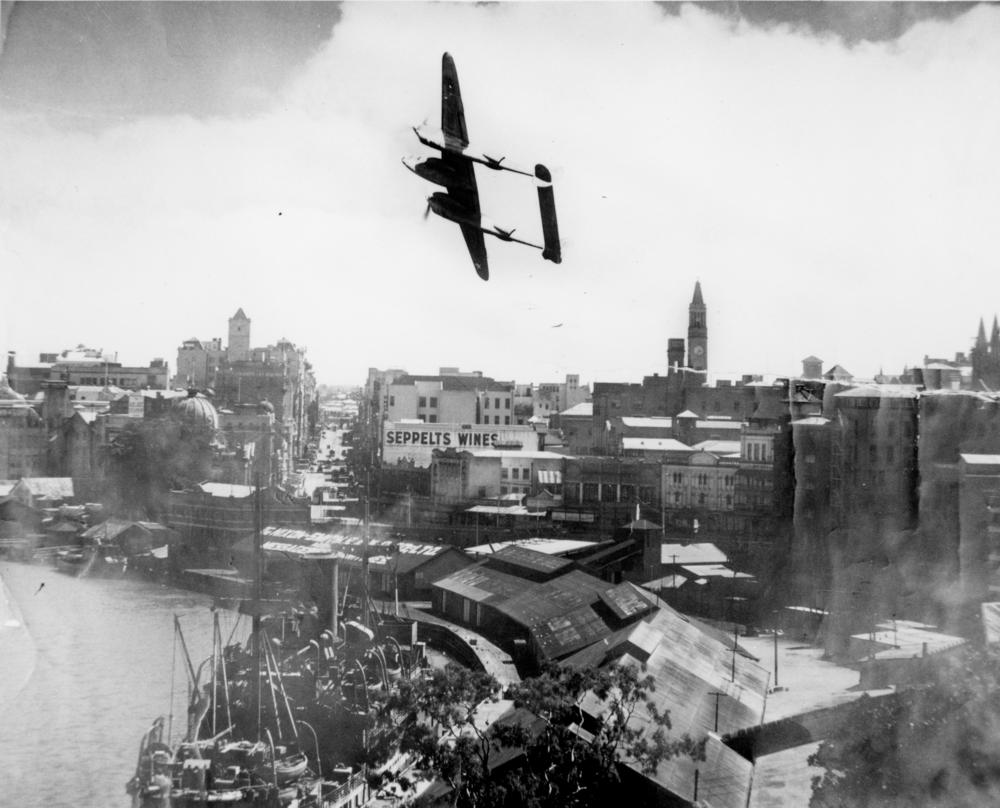 View of Queen Street and the wharves on the Brisbane River, Brisbane, Queensland, ca.1943 View of the wharves on the Brisbane River. Customs House is apparent in the lower left of the image. Queen Street is visible in the centre of the photograph with the prominent Seppelts Wines building in the centre. An aeroplane (a Lockheed Lightning fighter aircraft) is in the sky above the city of Brisbane.